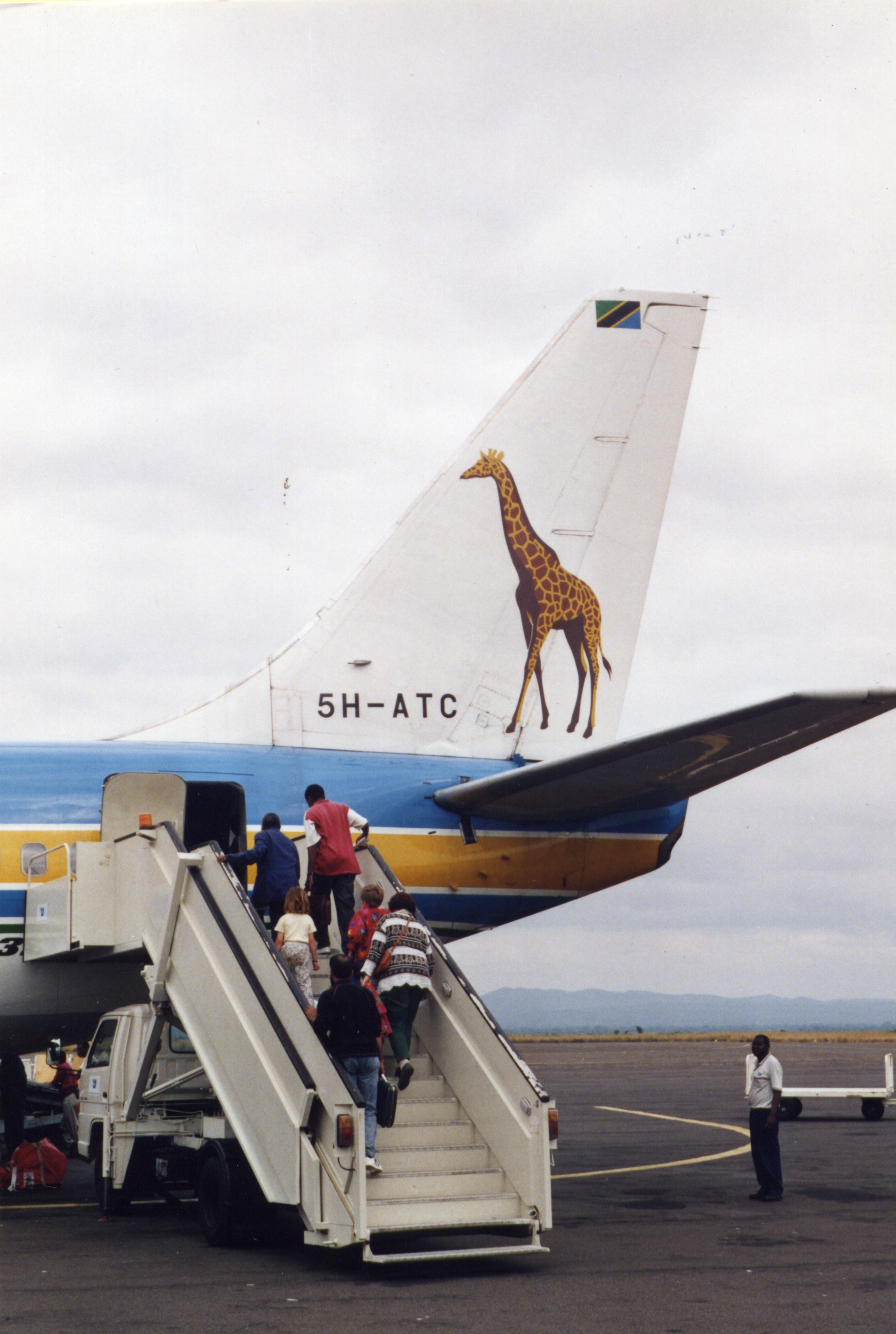 This is a Boeing 737 of ATC in 1995 at Arusha Airport.